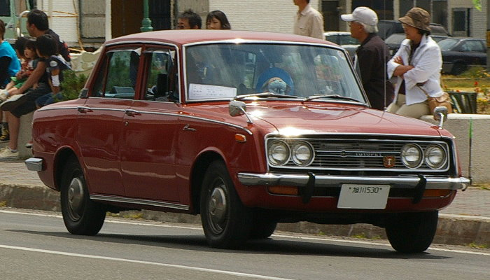 Toyota Toyopet Corona RT40, Northern Load Car festival in Wakkanai city.